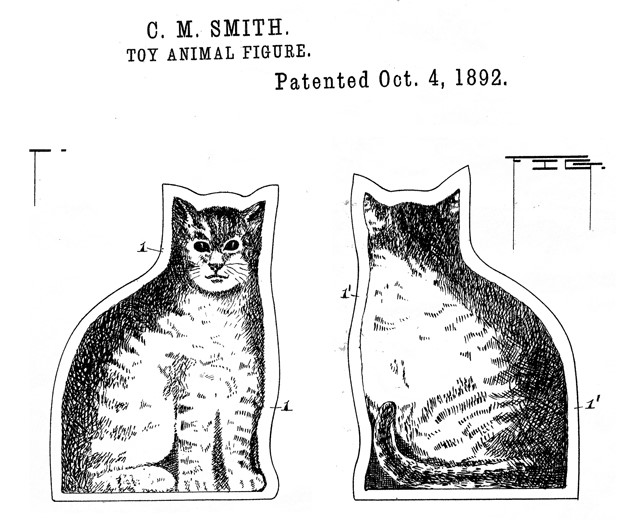 Patent image for the Ithaca Kitty